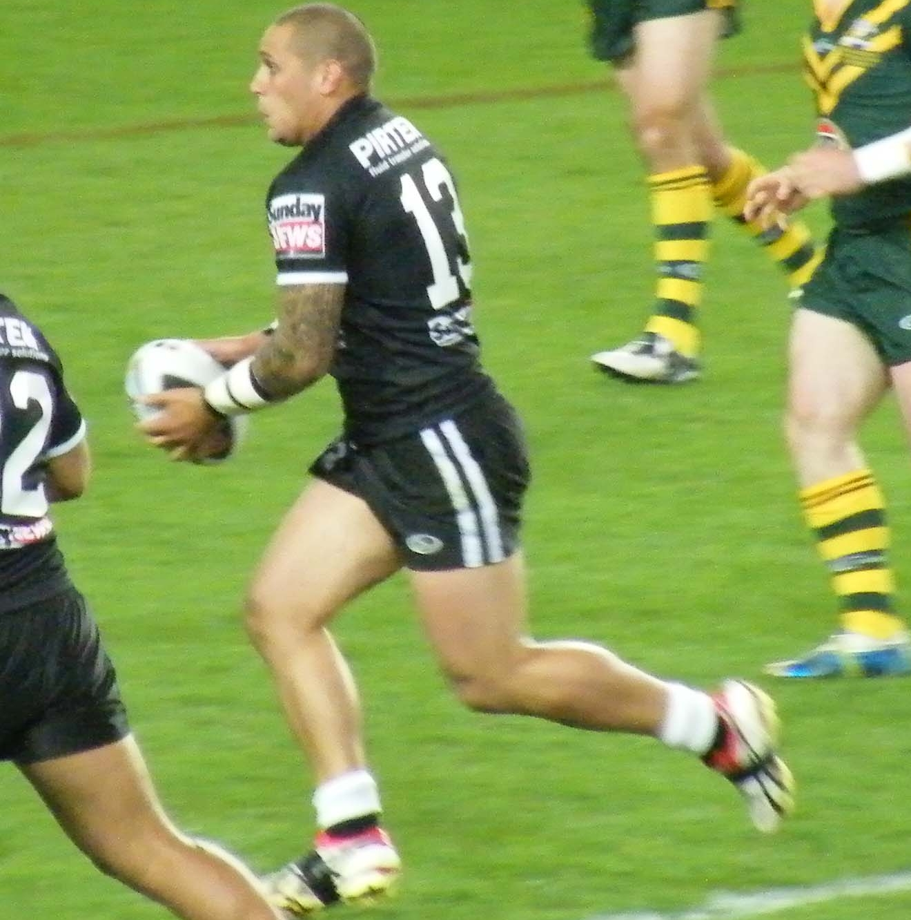 New Zealand lock forward Jeremy Smith. RLWC 2008.